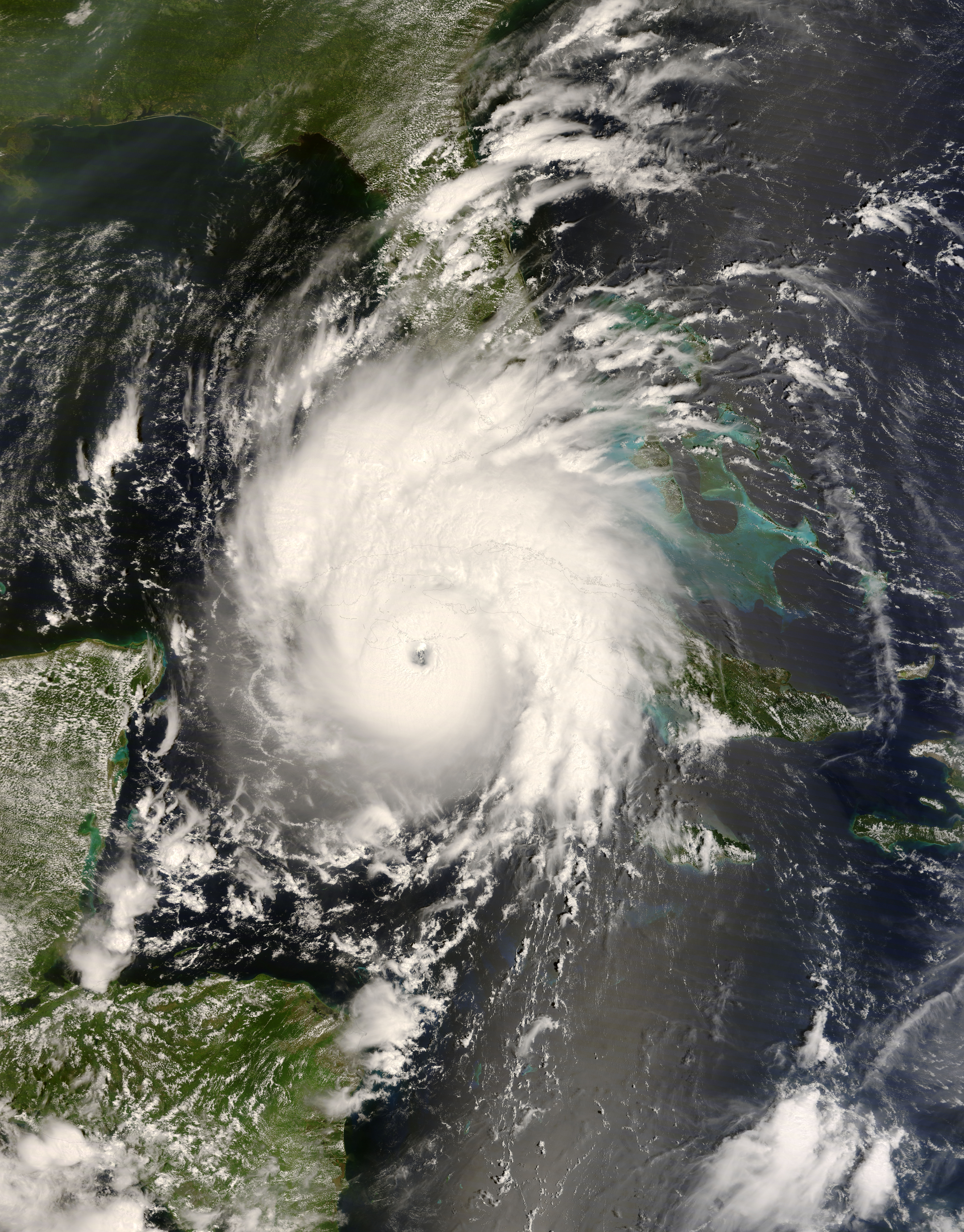 Hurricane Gustav at Cuban landfall with winds of 150 miles per hour on August 30, 2008.